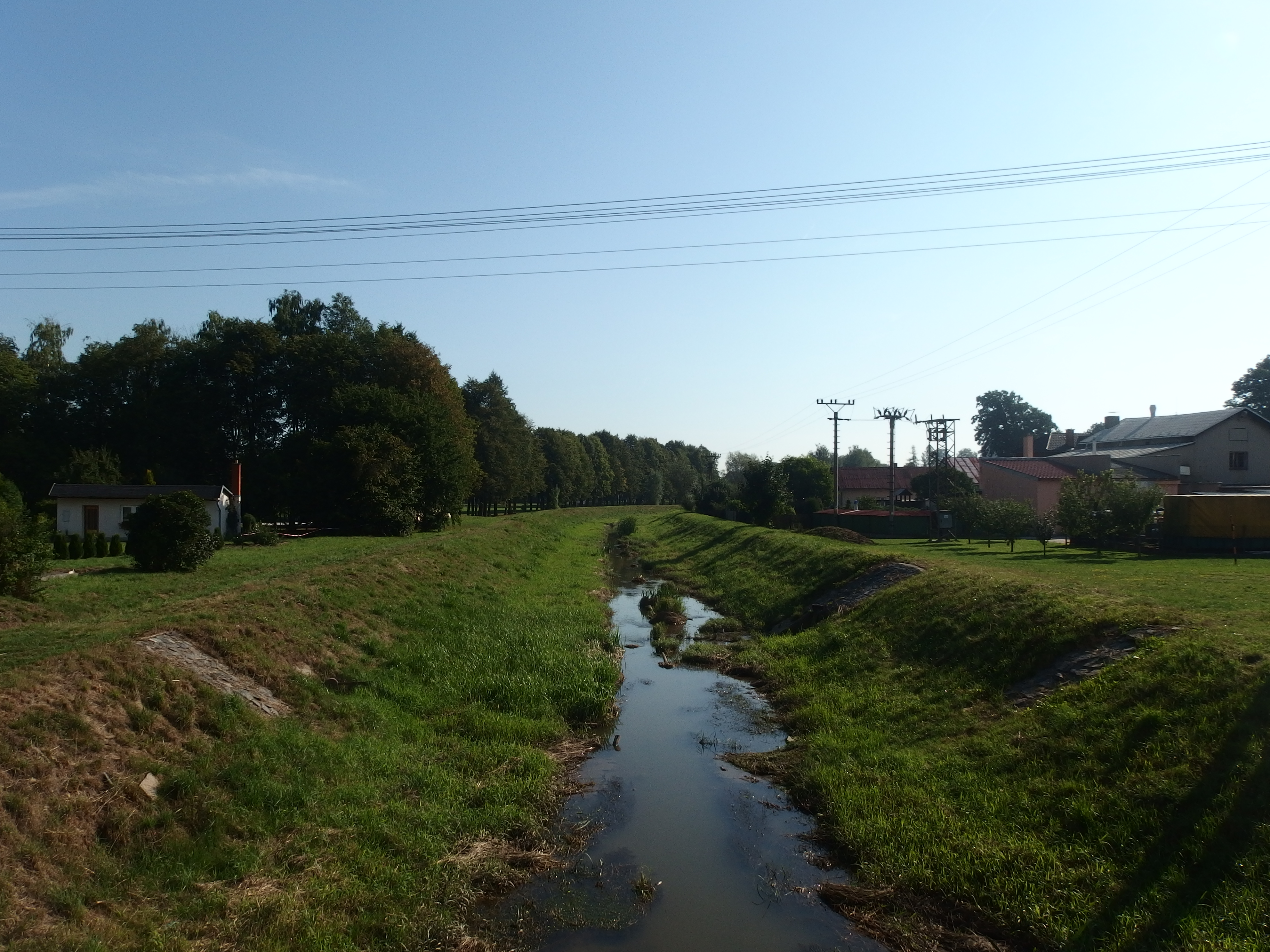 Jeseník nad Odrou, Nový Jičín District, Czech Republic.